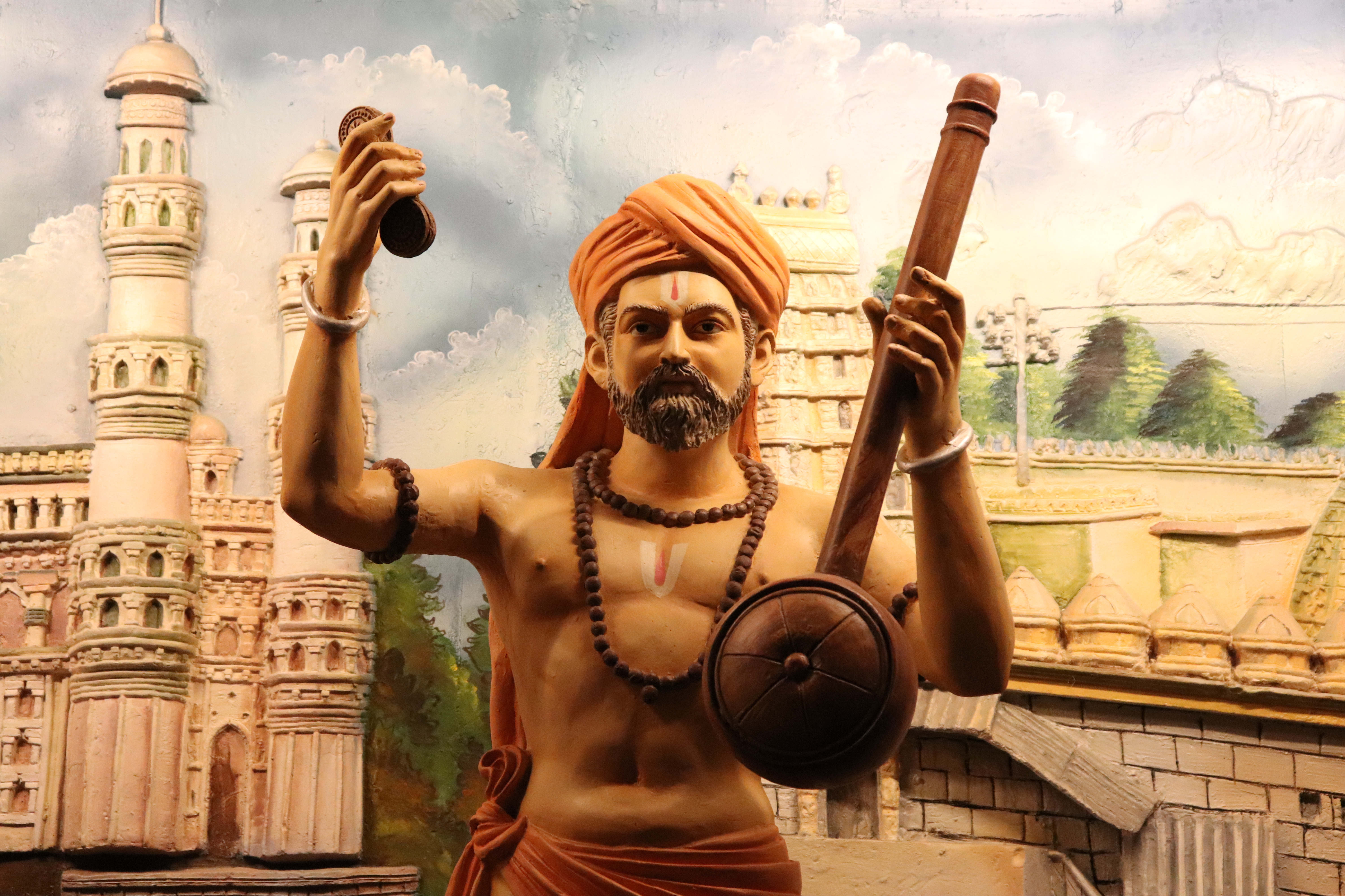 Annamayya is a well known devotee of Lord Venkateswara of Tirupati